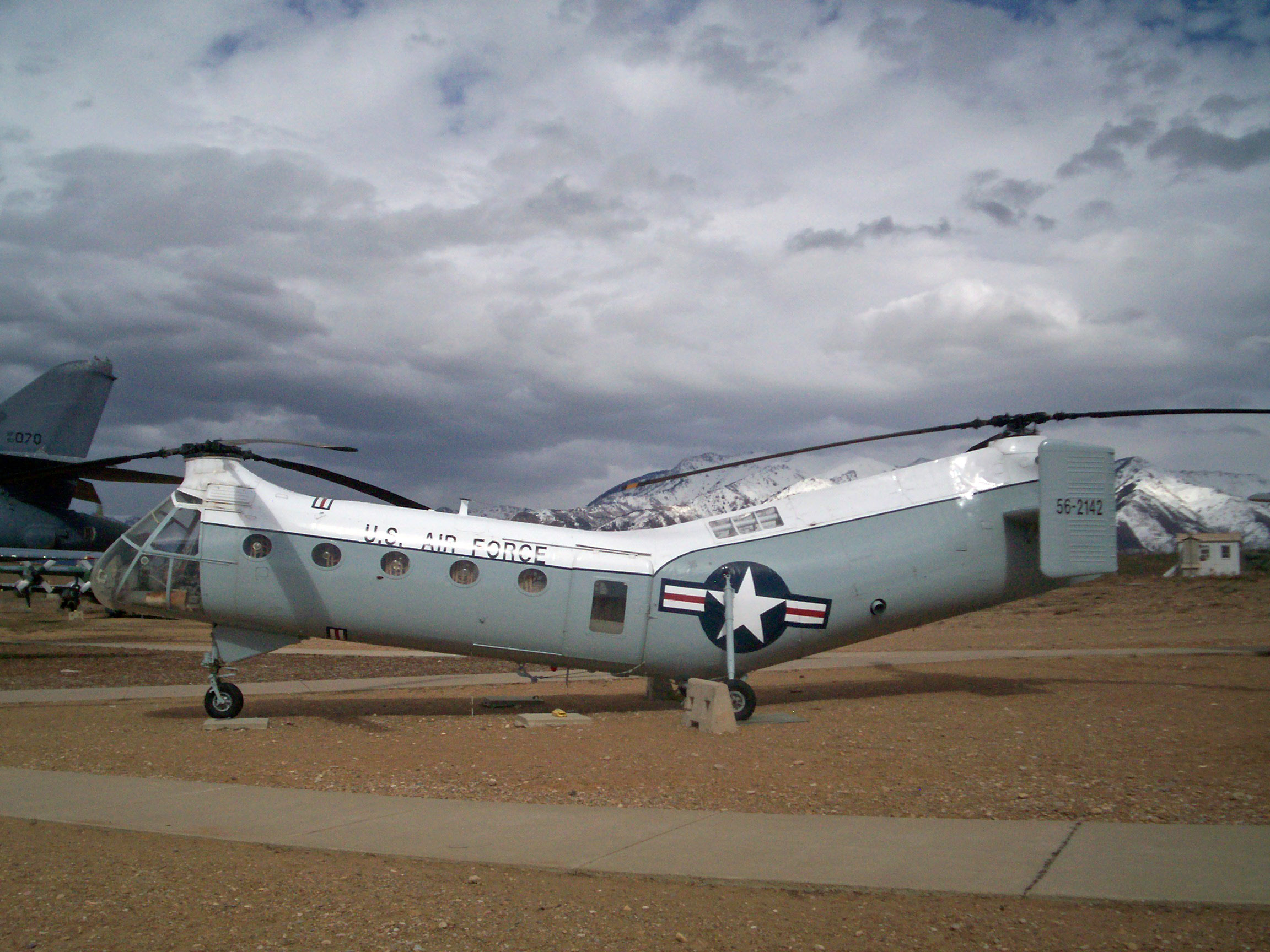 Double rotar US Air Force Helicopter.